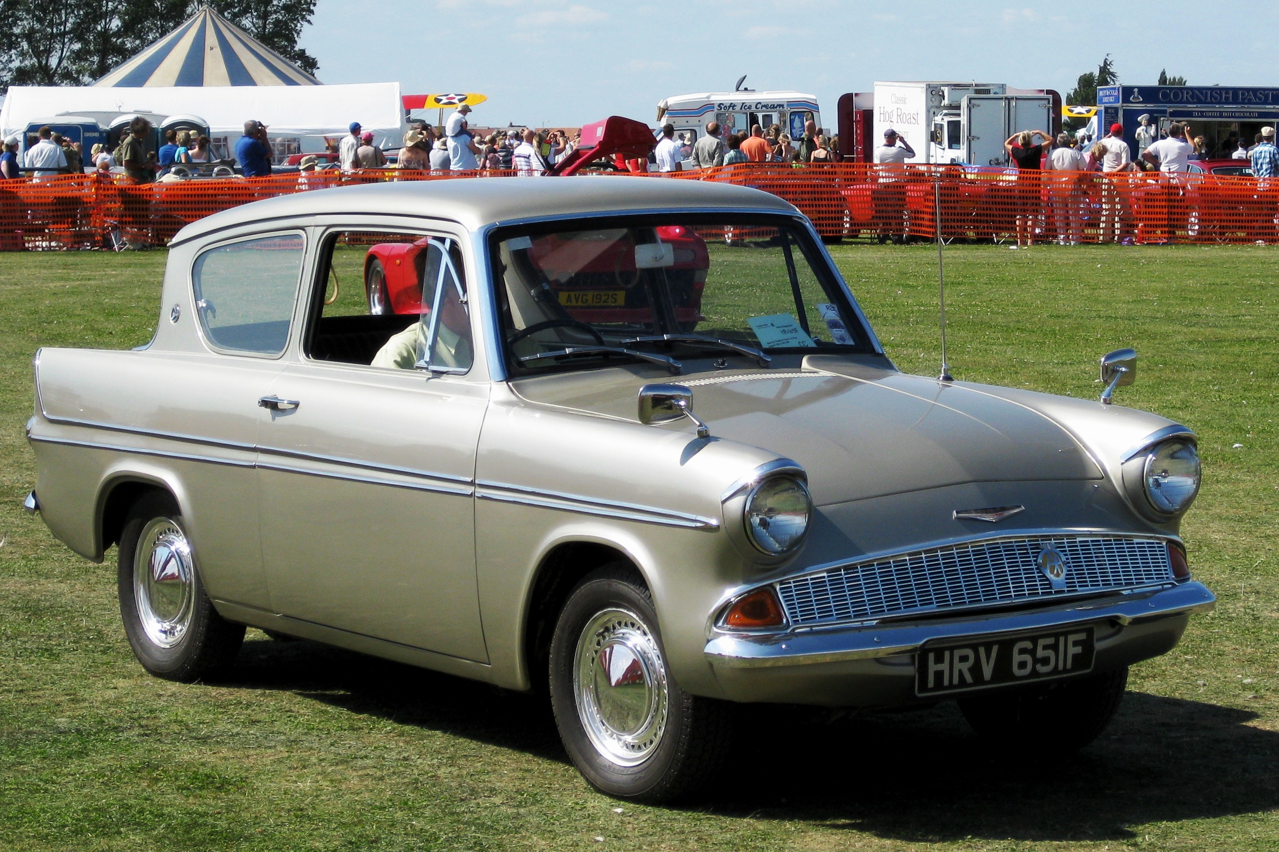 Ford Anglia 105E 1200